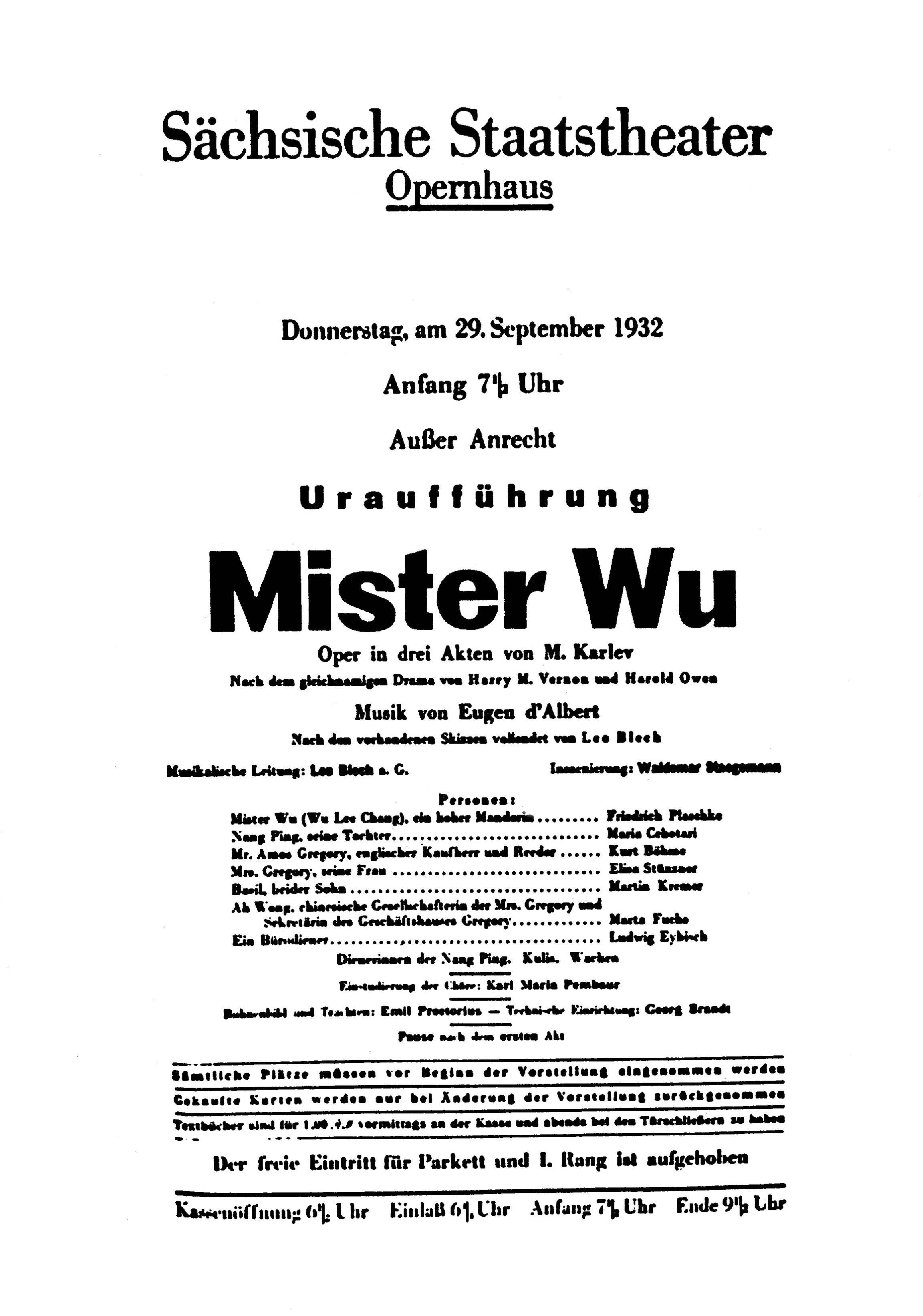 Playbill of the premiere of Eugen d'Albert's Mr. Wu / Dresden, September 1932